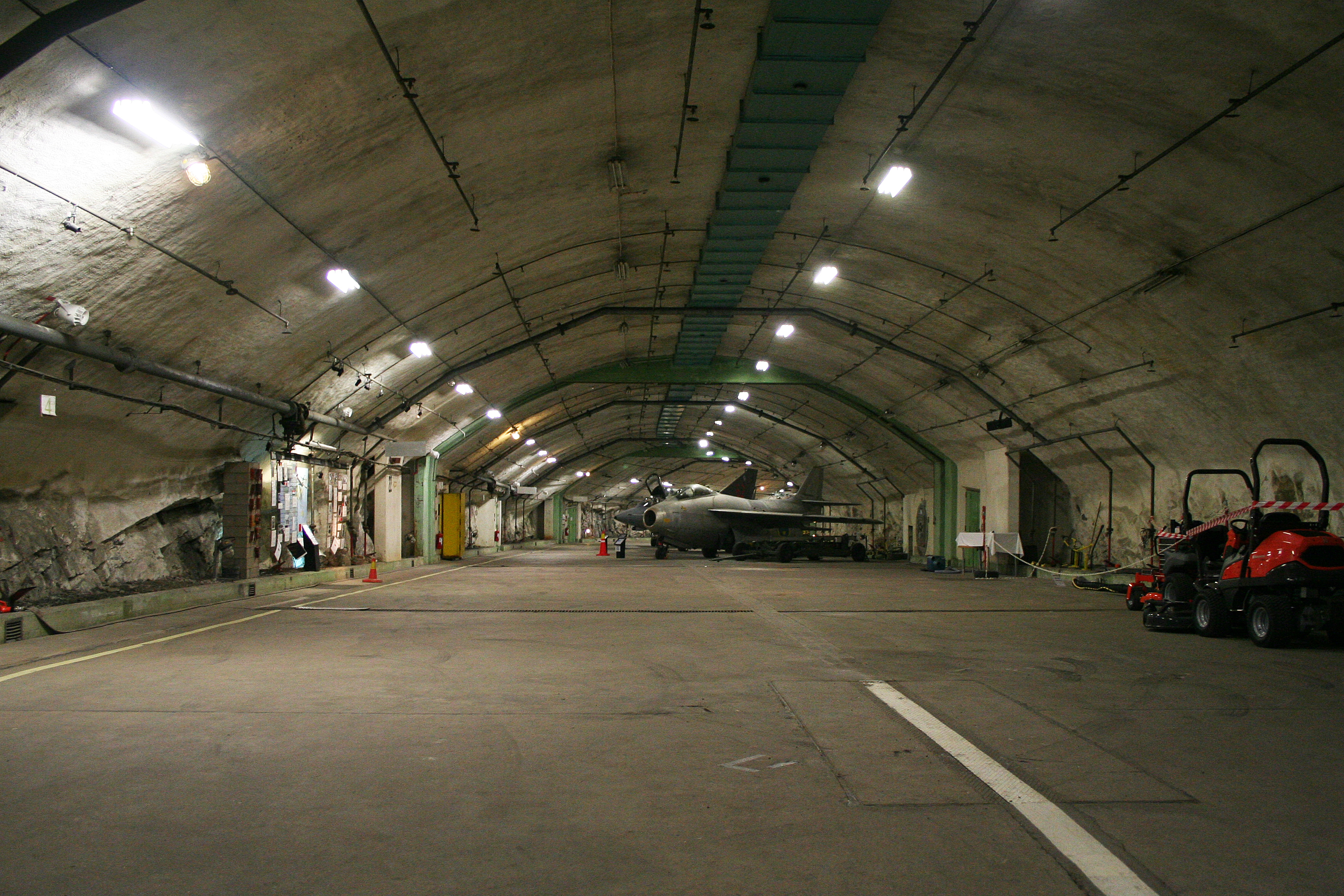 What an impressive view when to get when you open the entrance door to an air museum!! A row of Saab fighters and Swedish military helicopters awaits as you walk down. Not really evident in this shot is how steep this tunnel is! It also has a wonderful atmosphere! The Aeroseum (Gothenburg Save), 02-6-2012